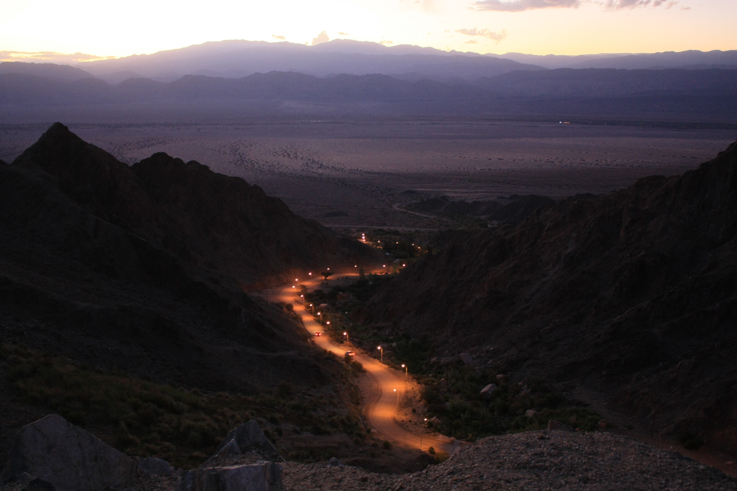 Fire road